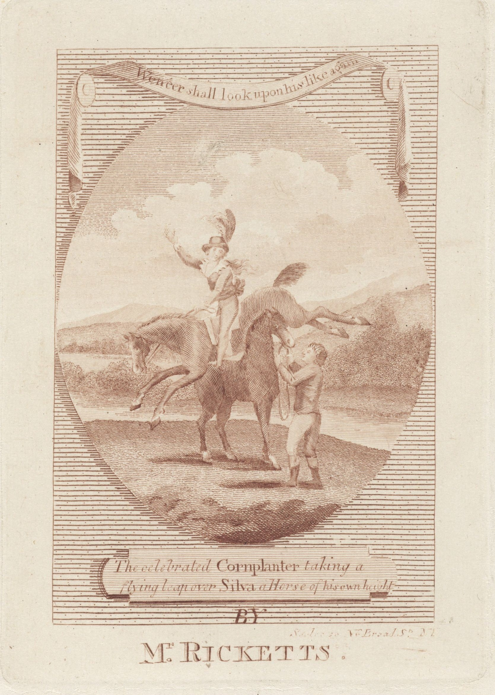 Illustration of a horse named Cornplanter leaping over another horse named Silva. Cornplanter was owned by John Bill Ricketts, whose name is at the bottom of the image. From A History of the American Theatre (New York: J. & J. Harper, 1832), by William Dunlap. HEW 14.4.1, Houghton Library, Harvard University